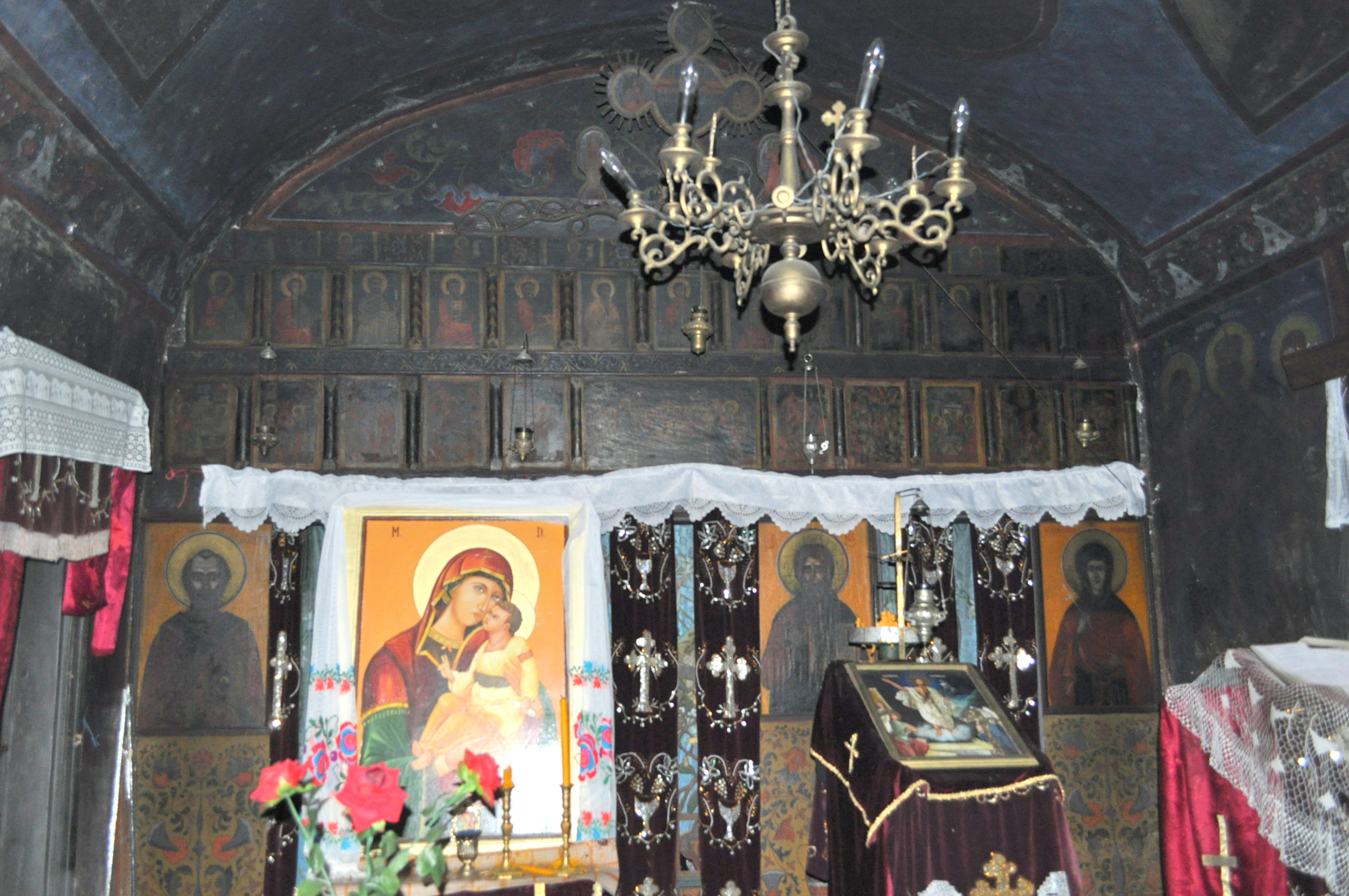 Wooden church in Maghereşti, Gorj county, Romania